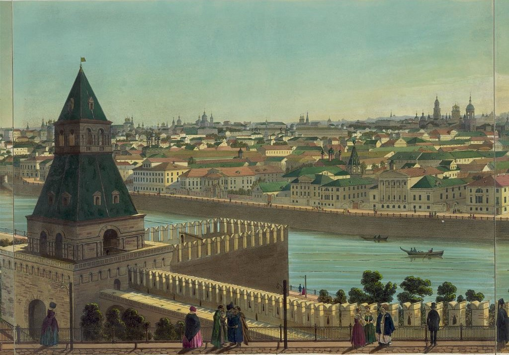 View of Moscow. Tainitskaya Gate of Kremlin and Zamoskvorechye